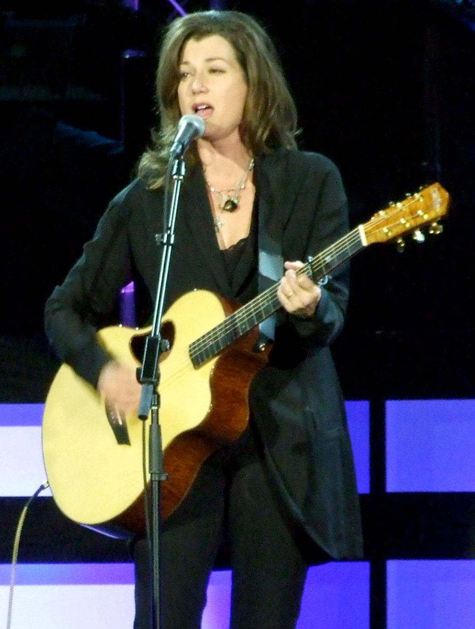 Amy Grant at the Peppermill Concert Hall in West Wendover, Nevada as part of her 20th anniversary Lead Me On tour.